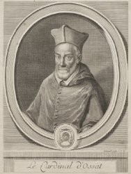 Arnaud d'Ossat (1537-1604)